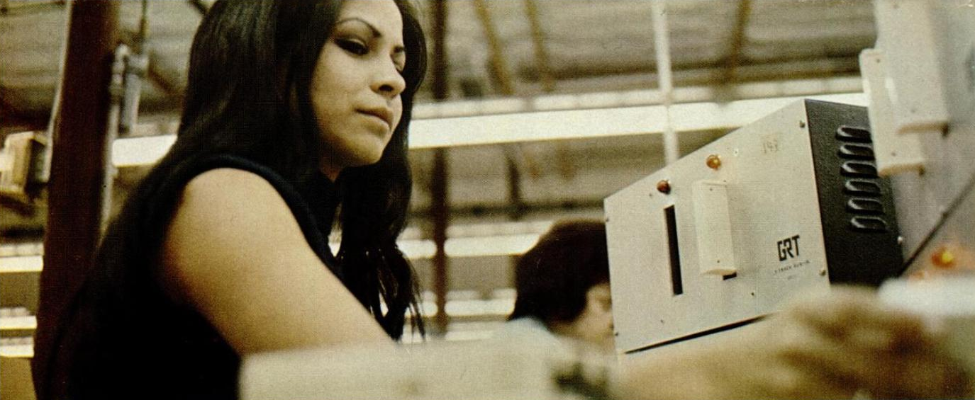 Trade ad for GRT 8-tracks. To better adapt it to his respective Wikipedia article, the ad was cropped and cleaned in a graphics editing program. The original can be viewed at the source below.